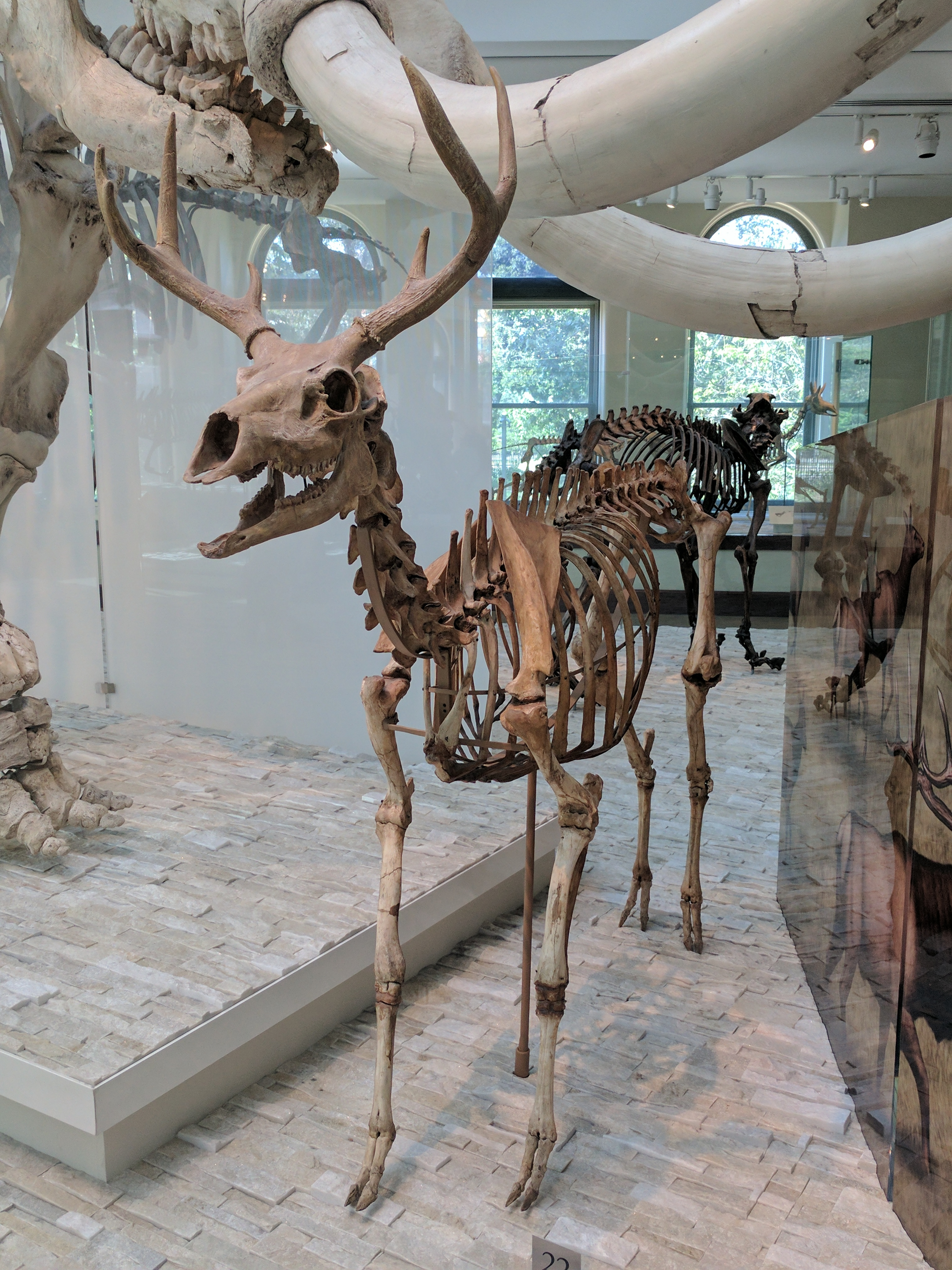 Natural History Museum Los Angeles